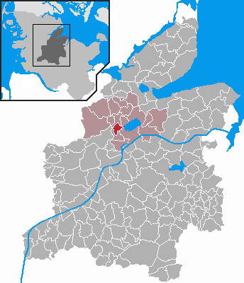 Locator maps of municipalities in Schleswig-Holstein - District Rendsburg-Eckernförde